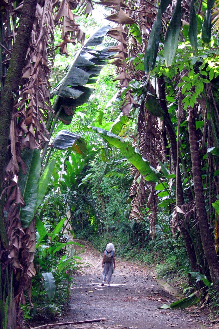 Walk path @ the University of Puerto Rico Botanical Gardens